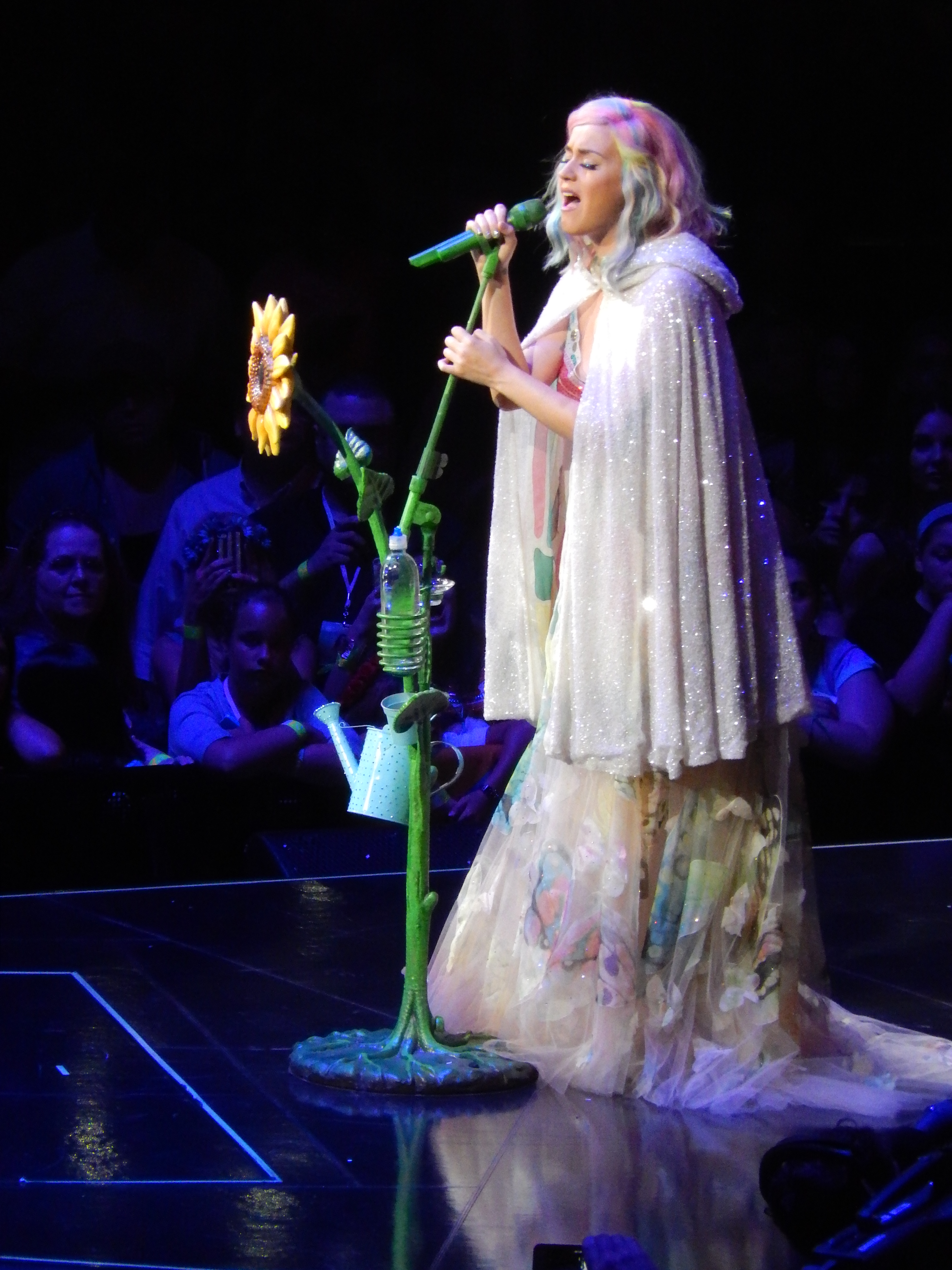 Katy Perry performing at the Prudential Center in Newark, New Jersey on July 11, 2014.